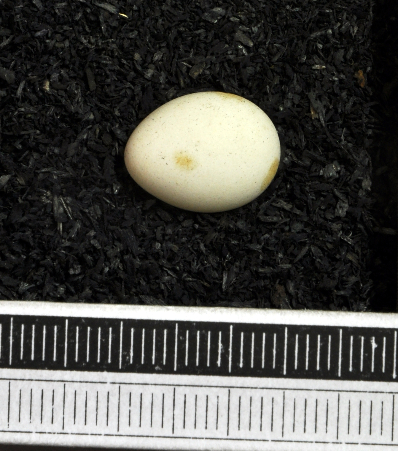 Orange-breasted waxbill Amandava subflava , egg, Coll. Museum Wiesbaden